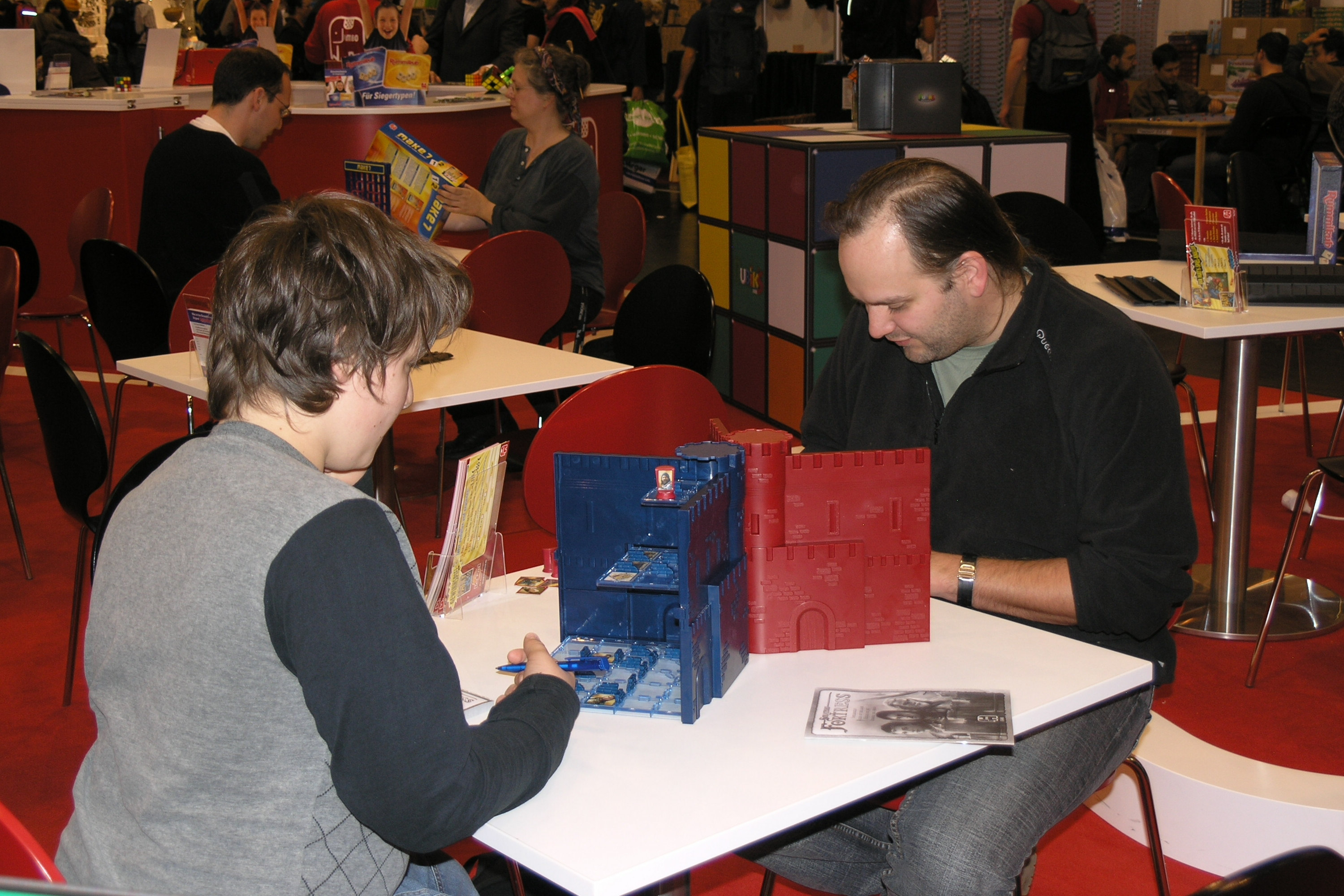 Personality rights warning Although this work is freely licensed or in the public domain, the person(s) shown may have rights that legally restrict certain re-uses unless those depicted consent to such uses. In these cases, a model release or other evidence of consent could protect you from infringement claims.